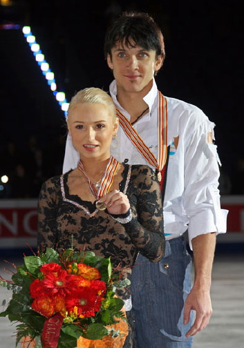 Maria Mukhortova & Maxim Trankov (RUS) on the podium at the 2009 European Figure Skating Championships